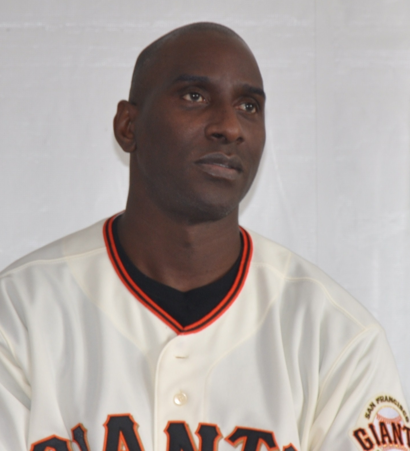 San Francisco Giants first base coach Roberto Kelly, 2010.